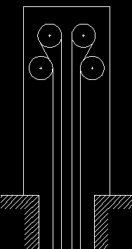 Installation of two friction winding hoists in a headframe.